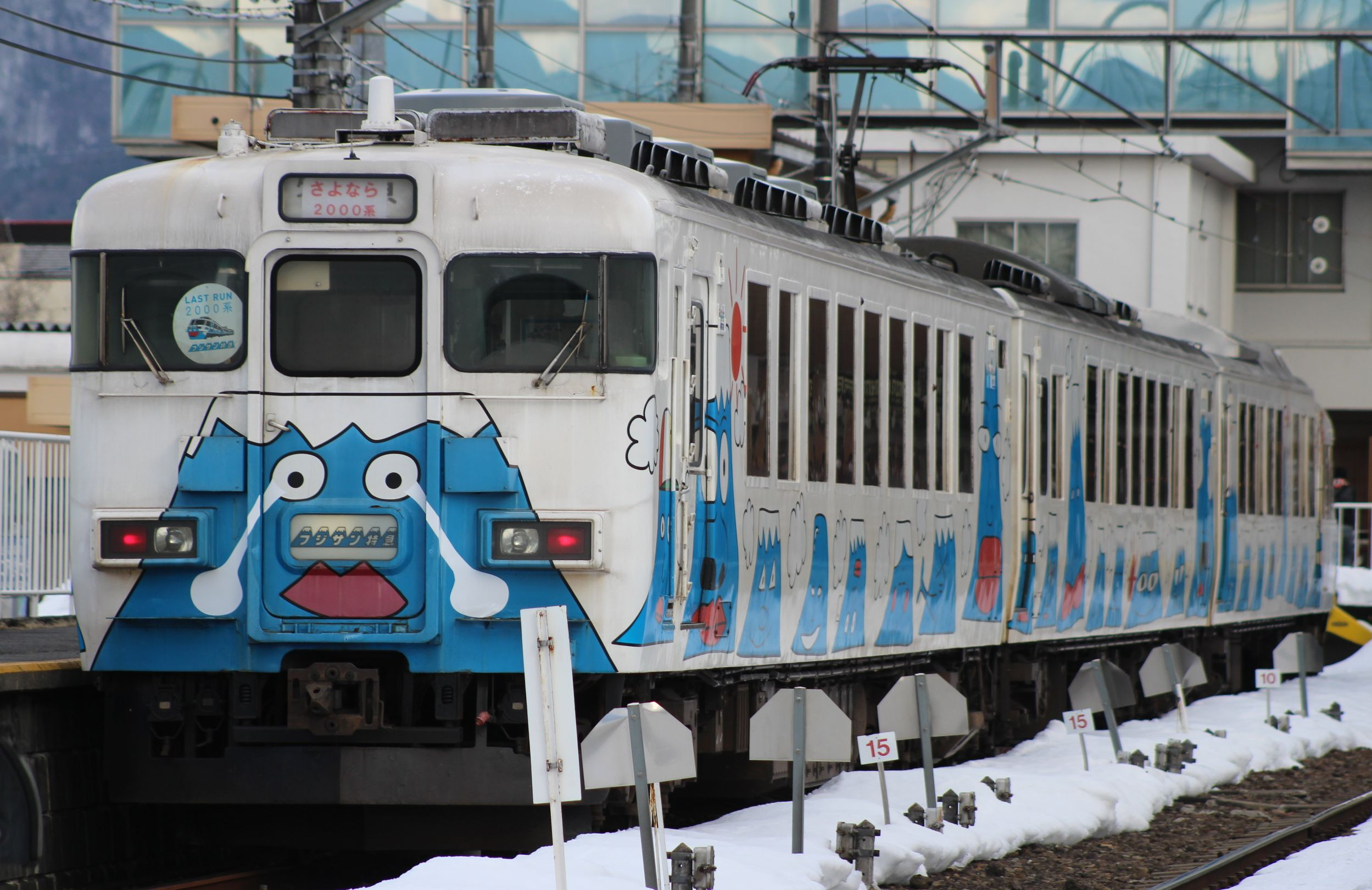 Fujikyu 2000 series EMU set 2001 at Fujisan Station on the last day of operations